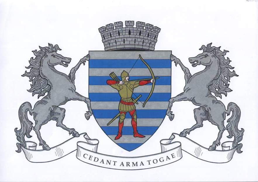 Coat of Arms of Bălţi, Moldova